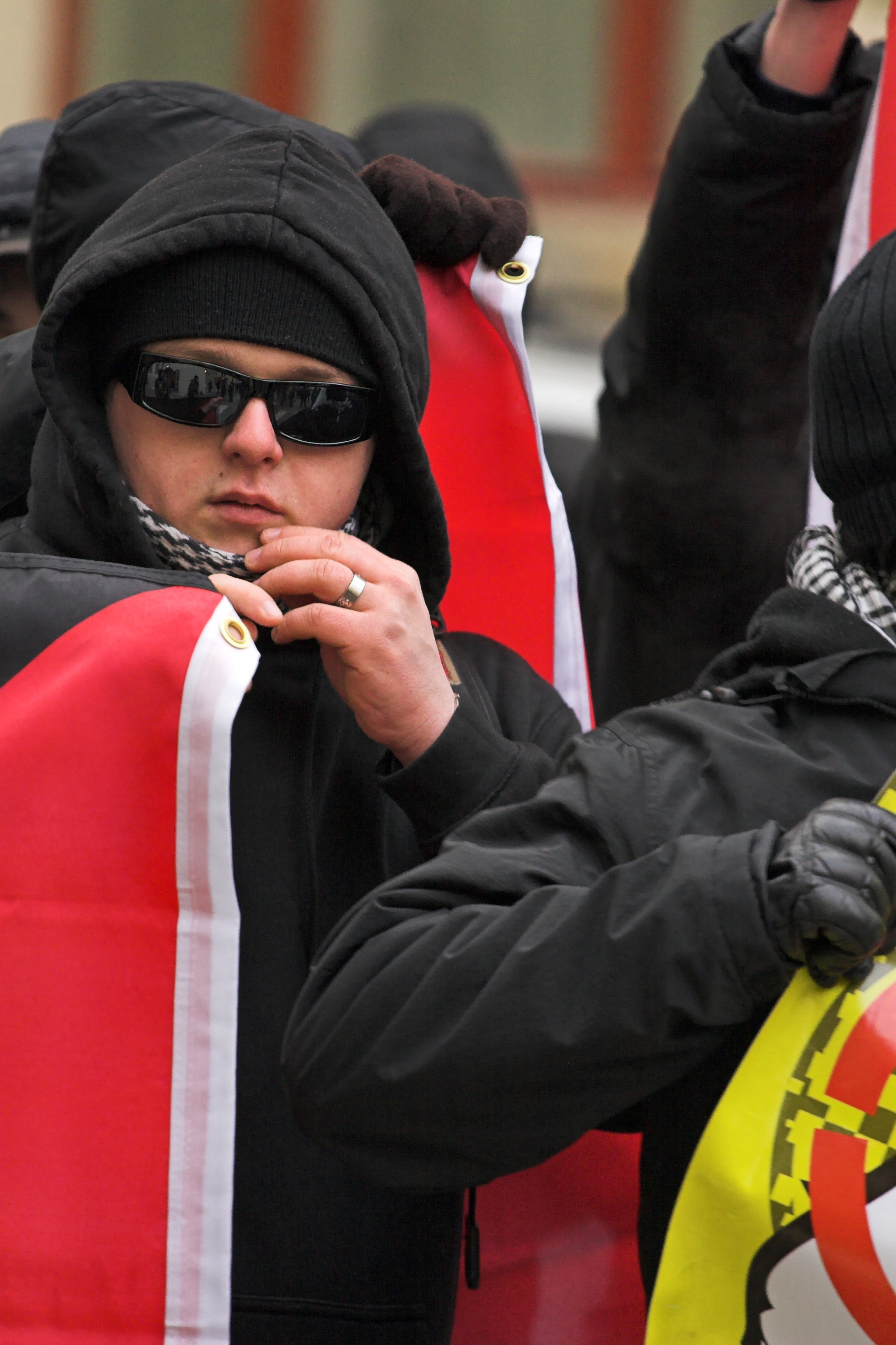 Far-right extremist demonstrating against Izrael at demonstration for Izrael, January 2009, Náměstí Franze Kafky, Prague.